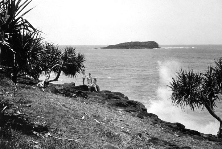 View of Cook Island from Fingal Head, near Tweed Heads, Tweed Shire. (An alternative name is Fingal Head)